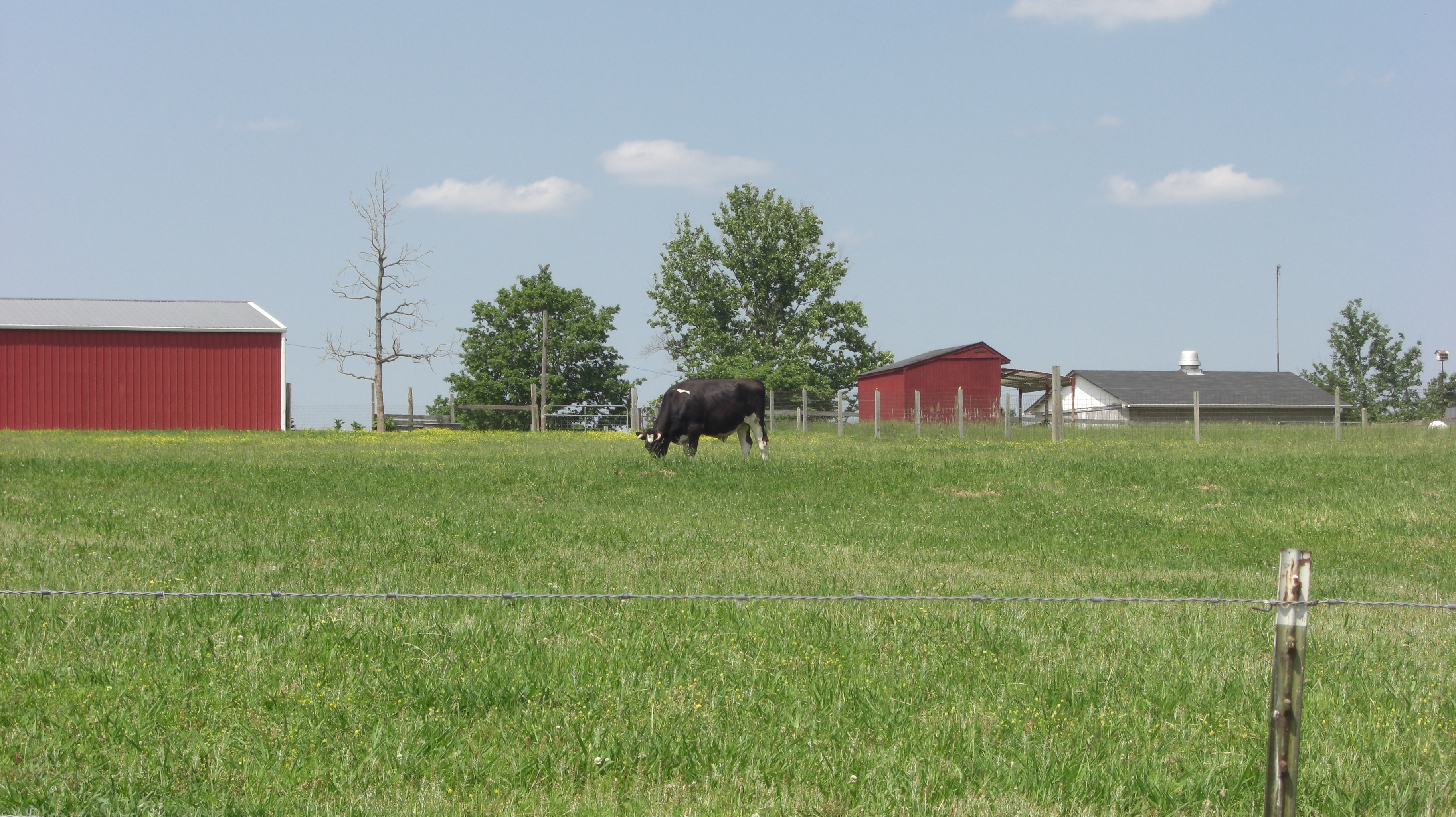 Farm in Fairview, Tennessee